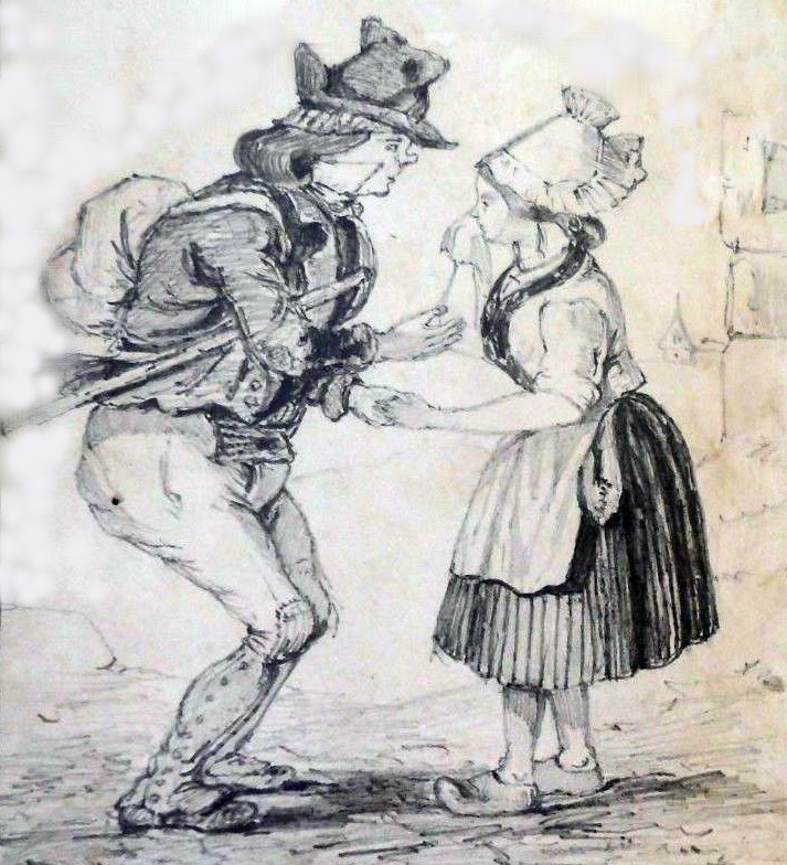 This 1848 drawing by John Brandard depicts Jeanette and Jeannot farewelling each other.